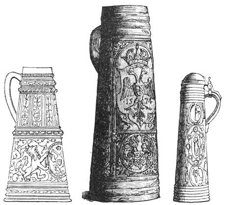 Stoneware beer mugs and stein from Meyers Encyclopedia, 1888-1889.